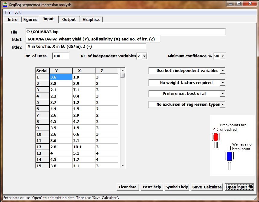 Screenshot of input tab sheet of free SegReg software for segmented regression